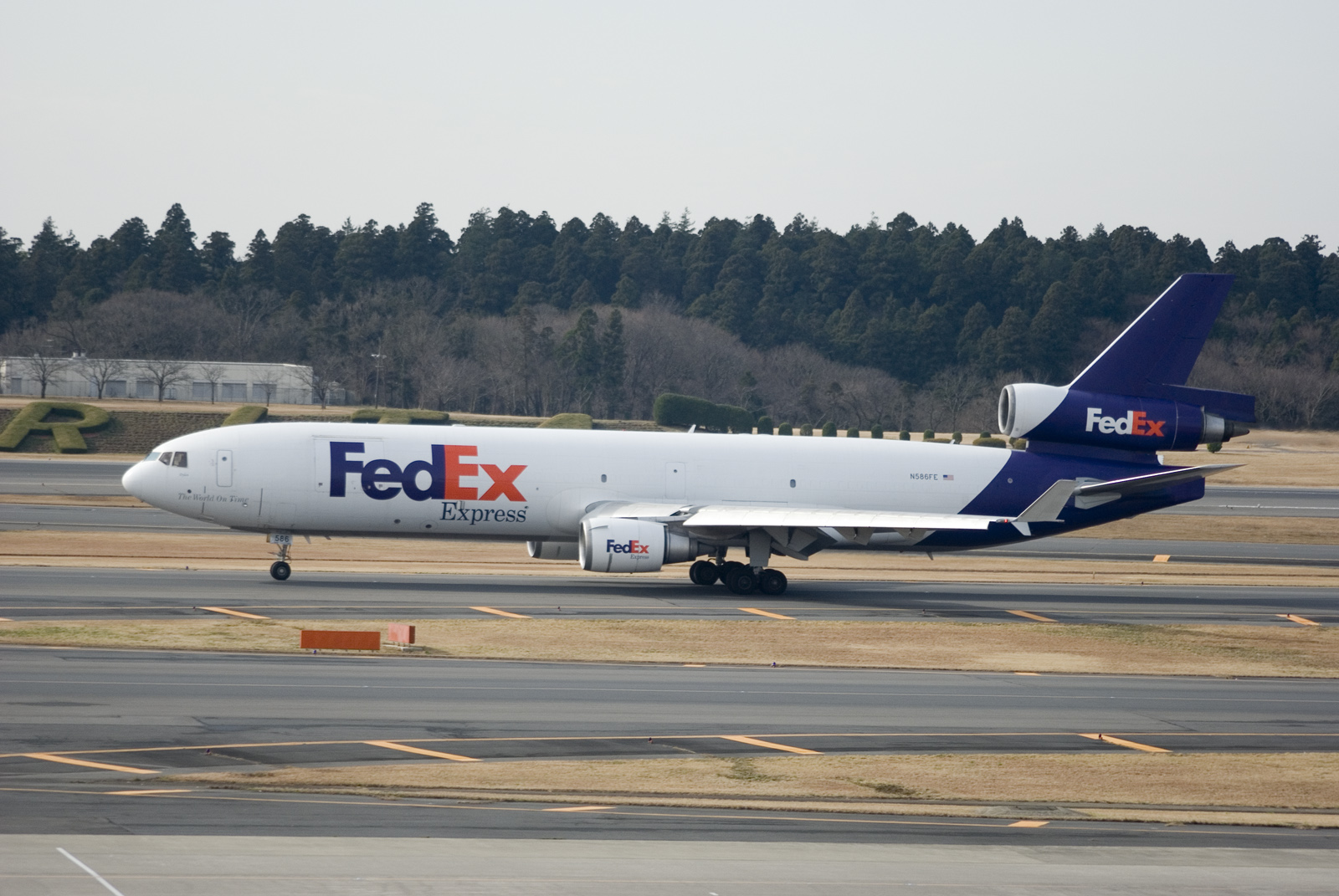 Federal Express McDonnell Douglas MD-11F (N586FE) in Narita (TYO)